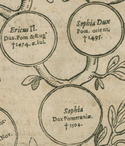 Excerpt from table I of: Tabulae Genealogicae, Quibus Illustrißimi Principis ac Domini D. Johannis Georgii, Ducis Saxoniae ... Sponsi: Et Illustrissimae Principis ac Dominae Dn. Magdalenae Sibyllae, Marchionißae Brandeburgensis ... Sponsae ... Breviter recensentur : Ex probatißimis quibusq[ue] Historicis collectae, & iisdem Illustrißimis Sponsis, auspicatißimi Nuptialis voti ergo Dedicatae Consecrataeq[ue] / ab Hieronymo Megisero, Acad. Lipsicae Professore Extraordinario Electorali. Gera : Spiessius 1607. Showing an early example of the use of U+271D latin cross to mark the death date of a person. (For this purpose, today the similar U+2020 dagger is often used in German texts.)